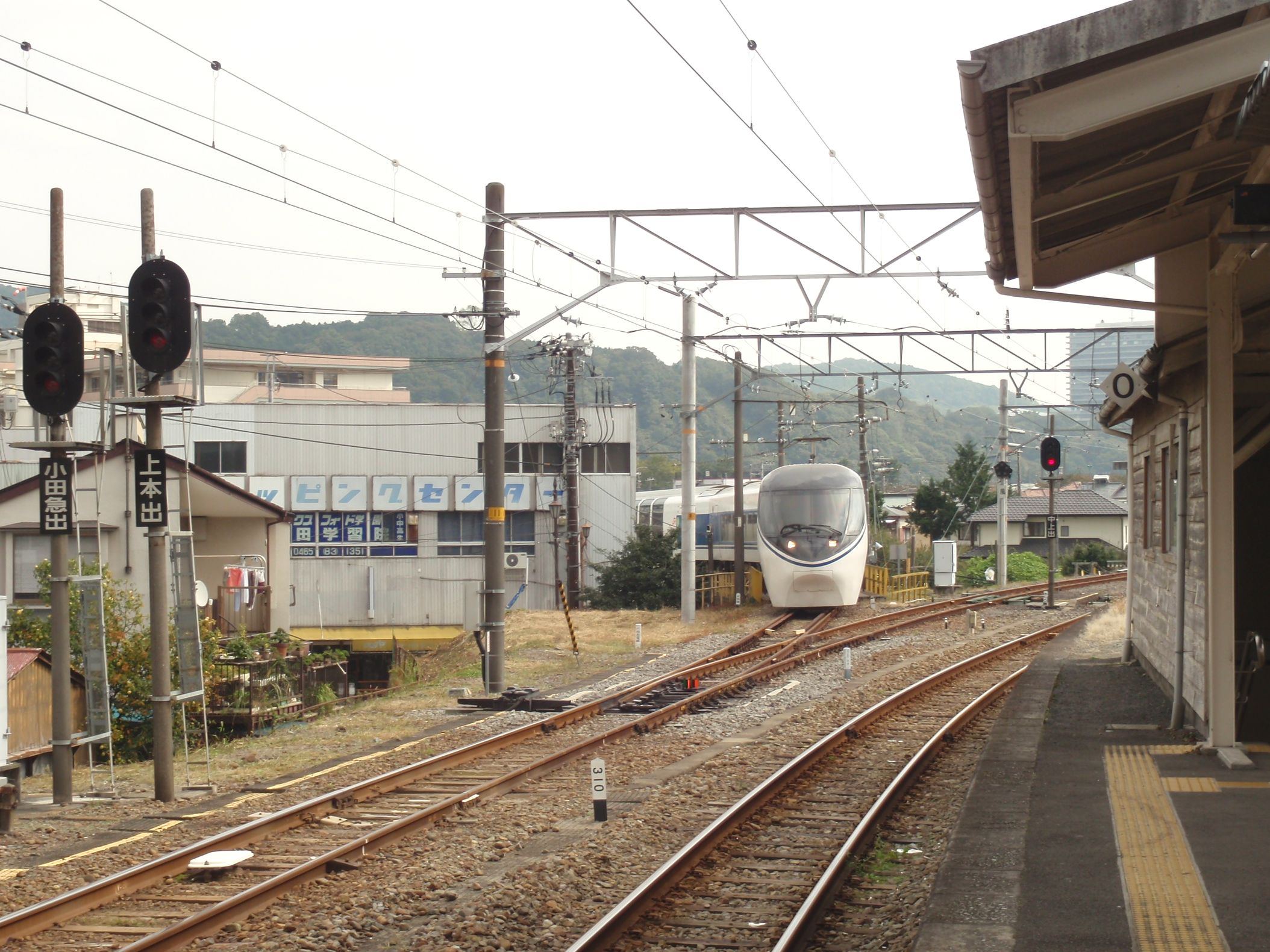 Entrance for Odakyu Line at Matsuda Sta. Central Japan Railway Company, EMU Type 371 "Asagiri"